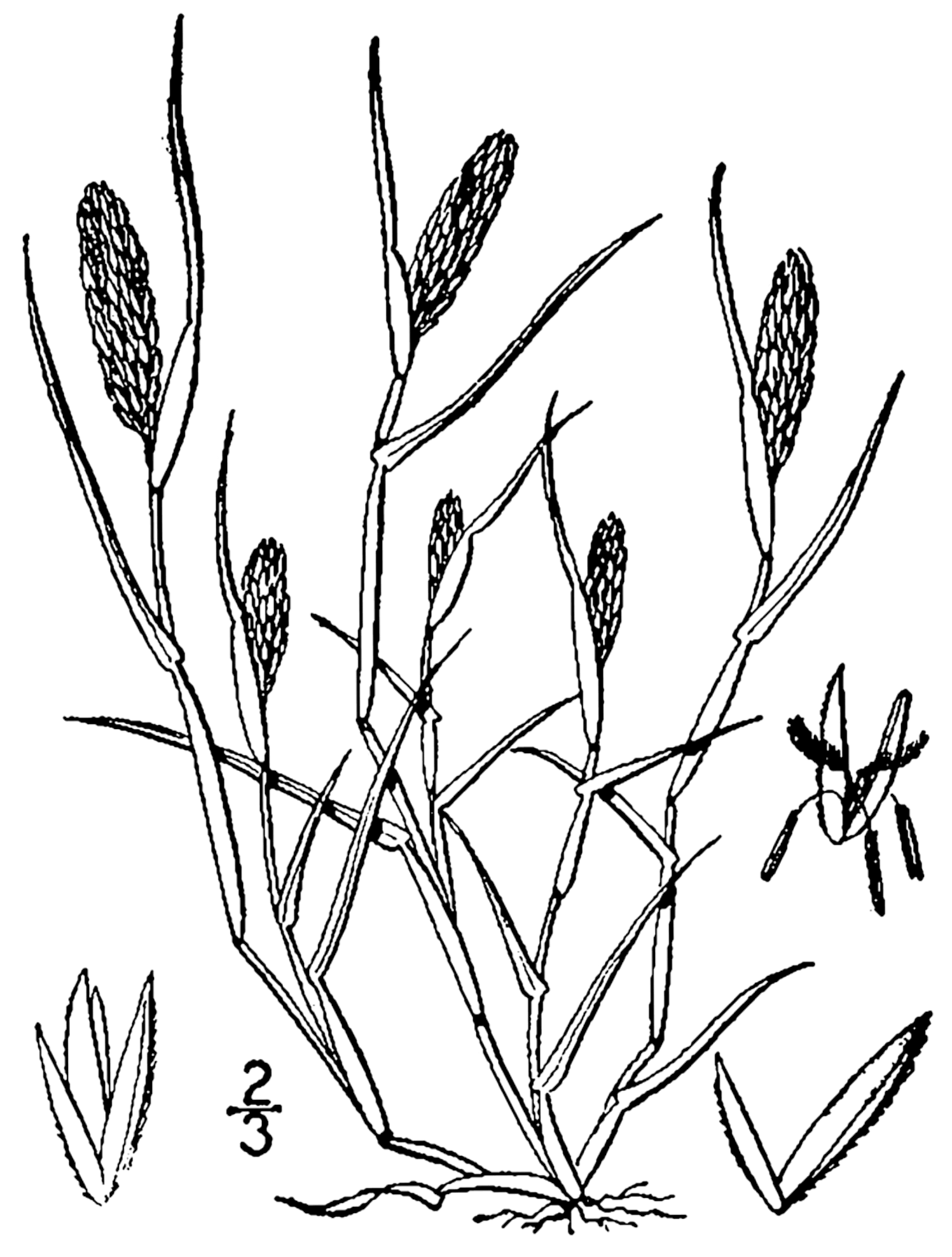 Crypsis schoenoides (L.) Lam. - swamp pricklegrass